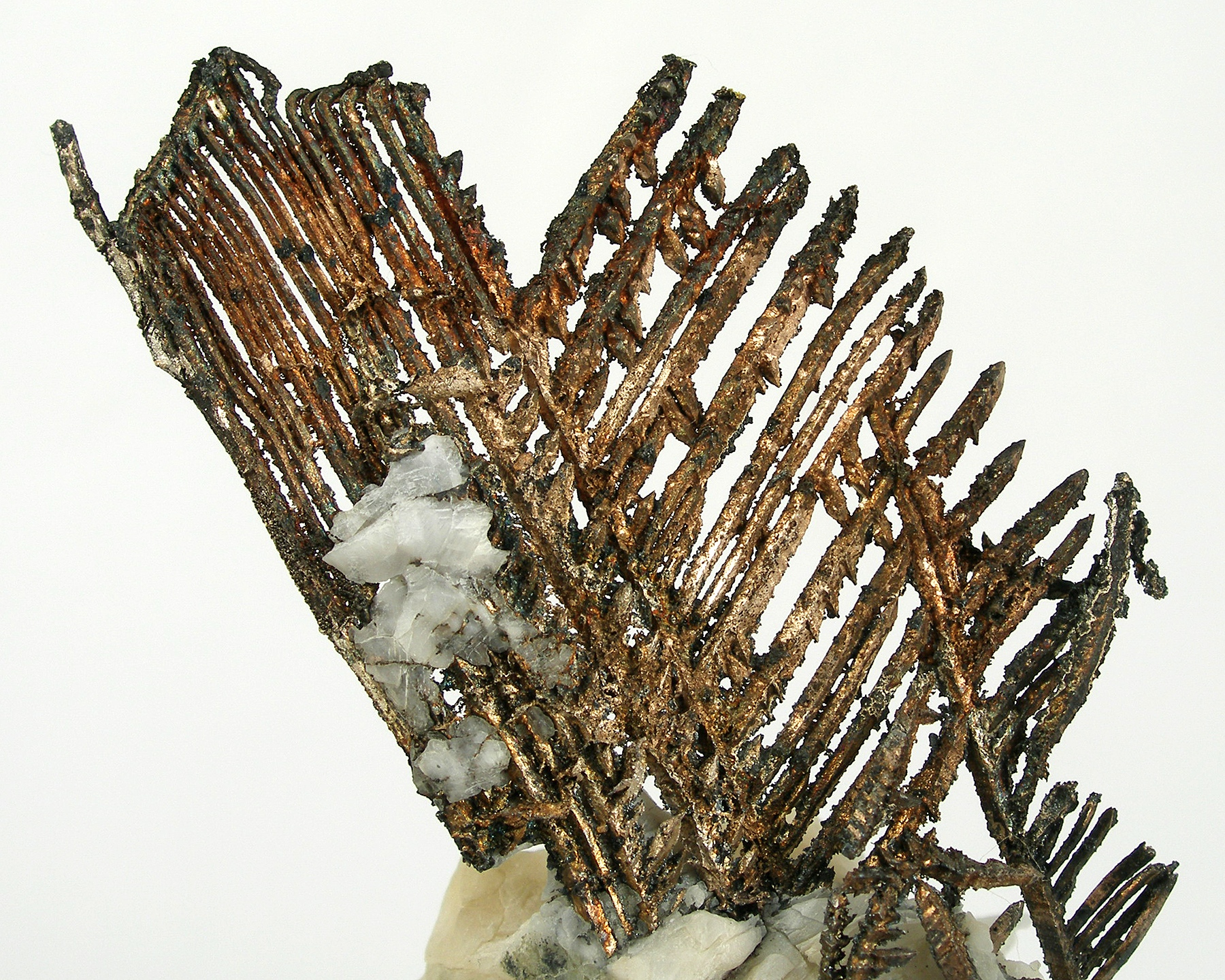 Calcite, Silver Locality: Batopilas, Andres del Rio District, Municipio de Batopilas, Chihuahua, Mexico (Locality at ) Size: small cabinet, 5.7 x 3.5 x 1.6 cm Silver on Calcite (illustrated MR) This specimen is one of the most elegant examples I have seen in a long time, from the famous early 1980s finds at the New Nevada Mine in the old Batopilas silver District. These specimens were brought to market by John Whitmire at the time. Steven Sinotte was a collector and part-time dealer at the old Desert Inn when they came out, and obtained this for his collection in the early picks. It is elegantly balanced, on just the right amount of calcite matrix pedestal. It shows a CLASSIC, and very fine, herringbone pattern of crystallized spinel-twinned silver crystals interlinked with one another. The crystal cluster is robust, not fragile and "bendy" as are so many from these finds (particularly from silvers found a few years later). This specimen was pictured in the Mineralogical Record article on the find, in 1982: Mineralogical Record vol 12, May-June, page 178, figure 6. It has remained in his collection, and that of his wife, noted glassmaker Rebecca Stewart, ever since a few weeks after it was mined in the early 1980s. Comes with a lucite base for custom display